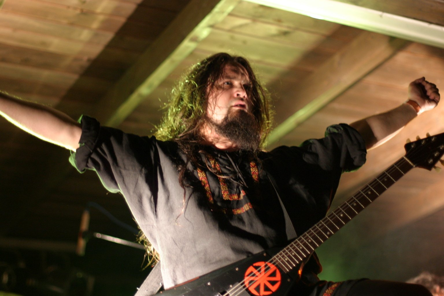 Sergei "Lazar" (guitarist) of the russian Pagan-Metal-Band Arkona, performing live at the Black Troll Festival (Germany) in 2010.